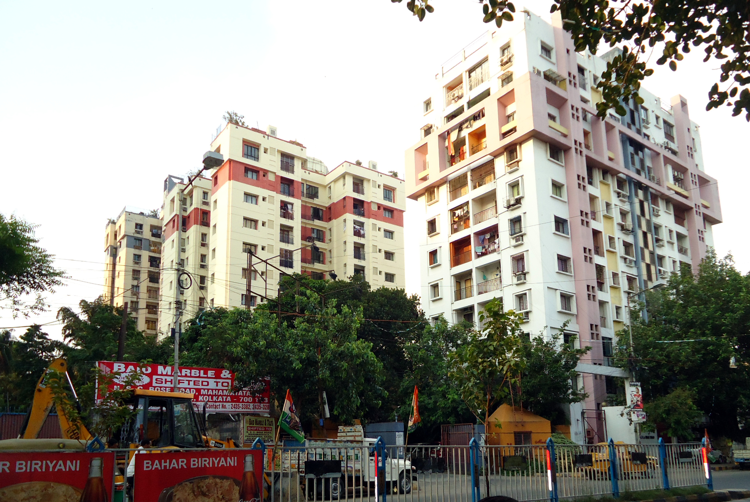 Merlin Residency & Fort Royal at PAS Road